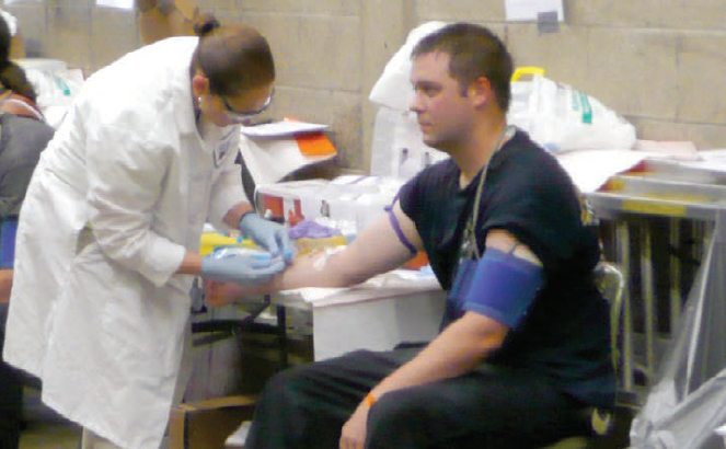 Firefighter having blood drawn.